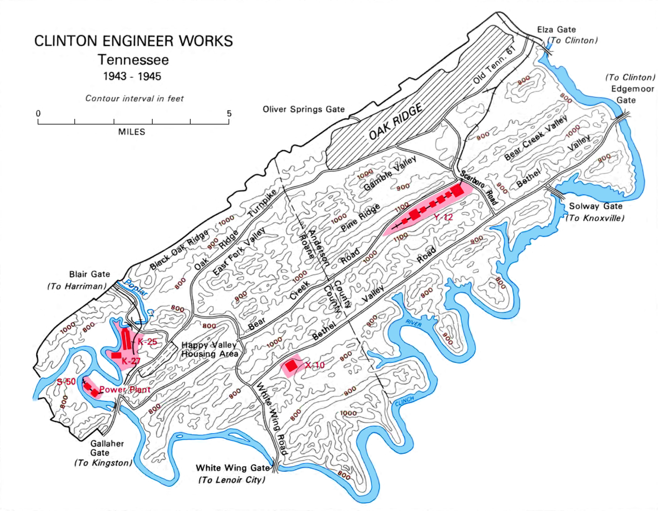 Map of the Clinton Engineer Works